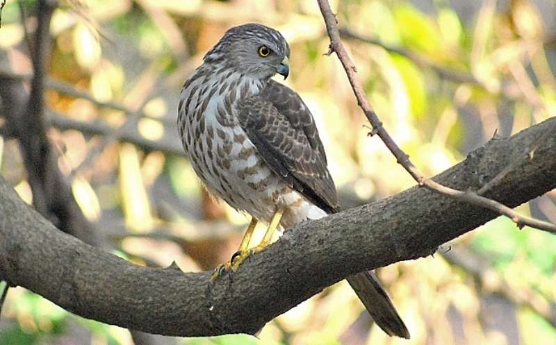 Besra (Accipiter virgatus) in Ankola, Karnataka